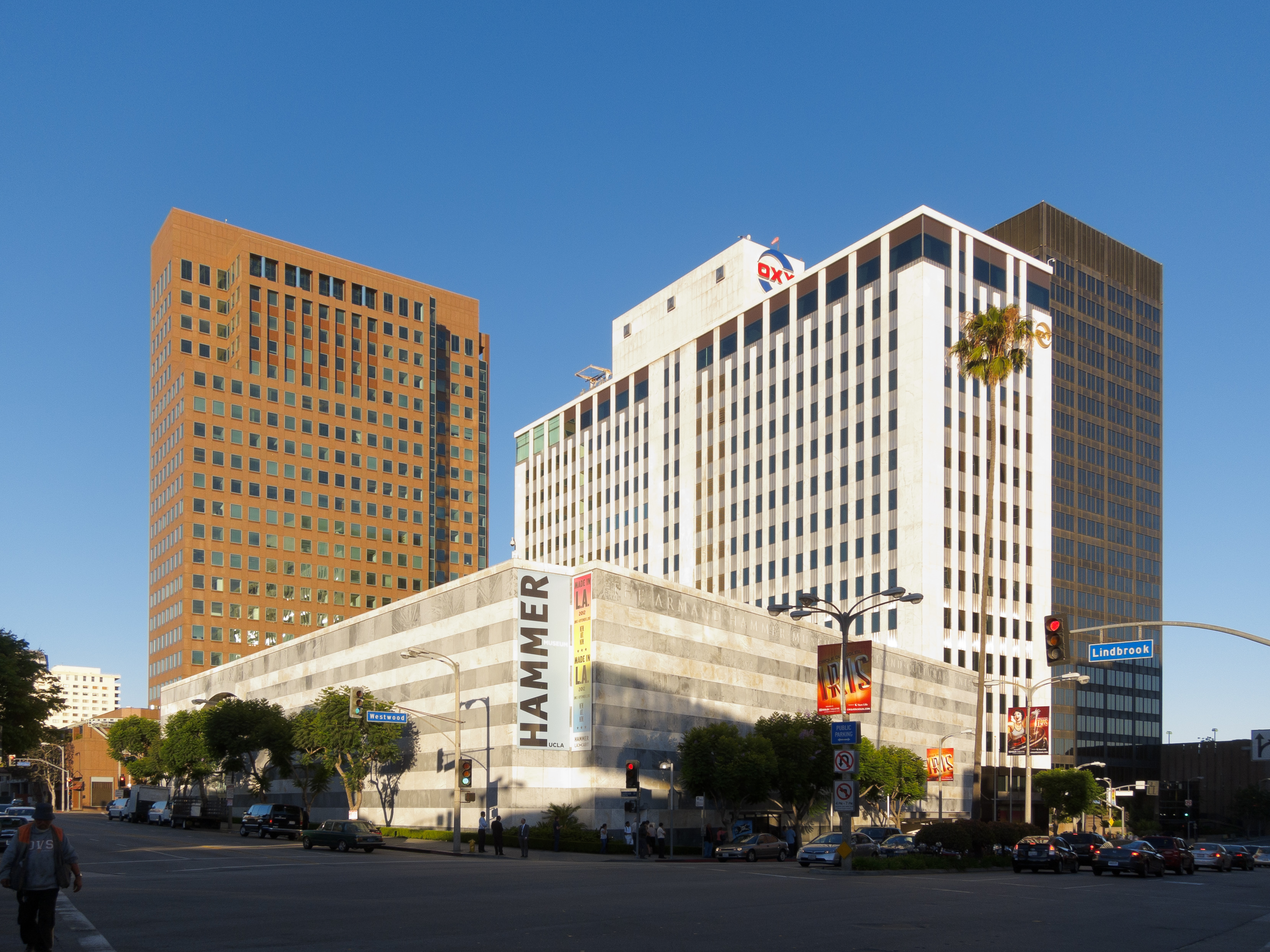 Hammer Museum at the intersection of Westwood Blvd. and Lindbrook Dr. in Westwood, Los Angeles, California.